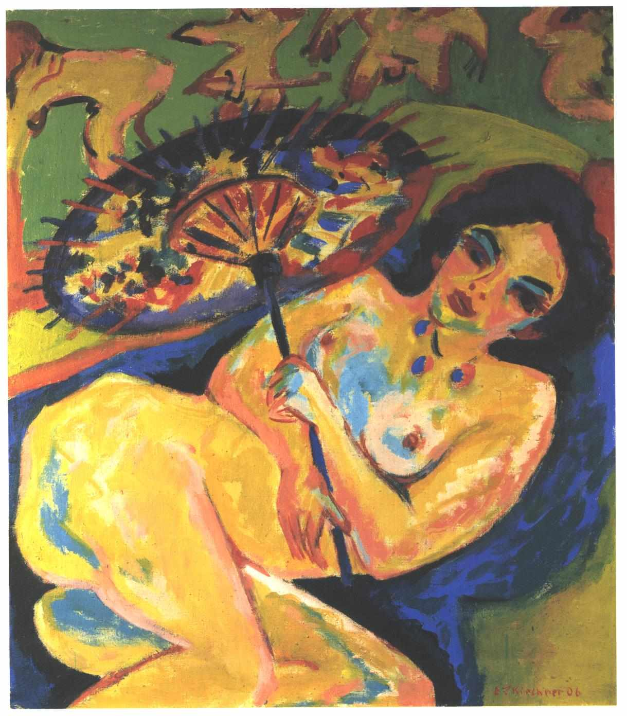 Girl under a japanese umbrella